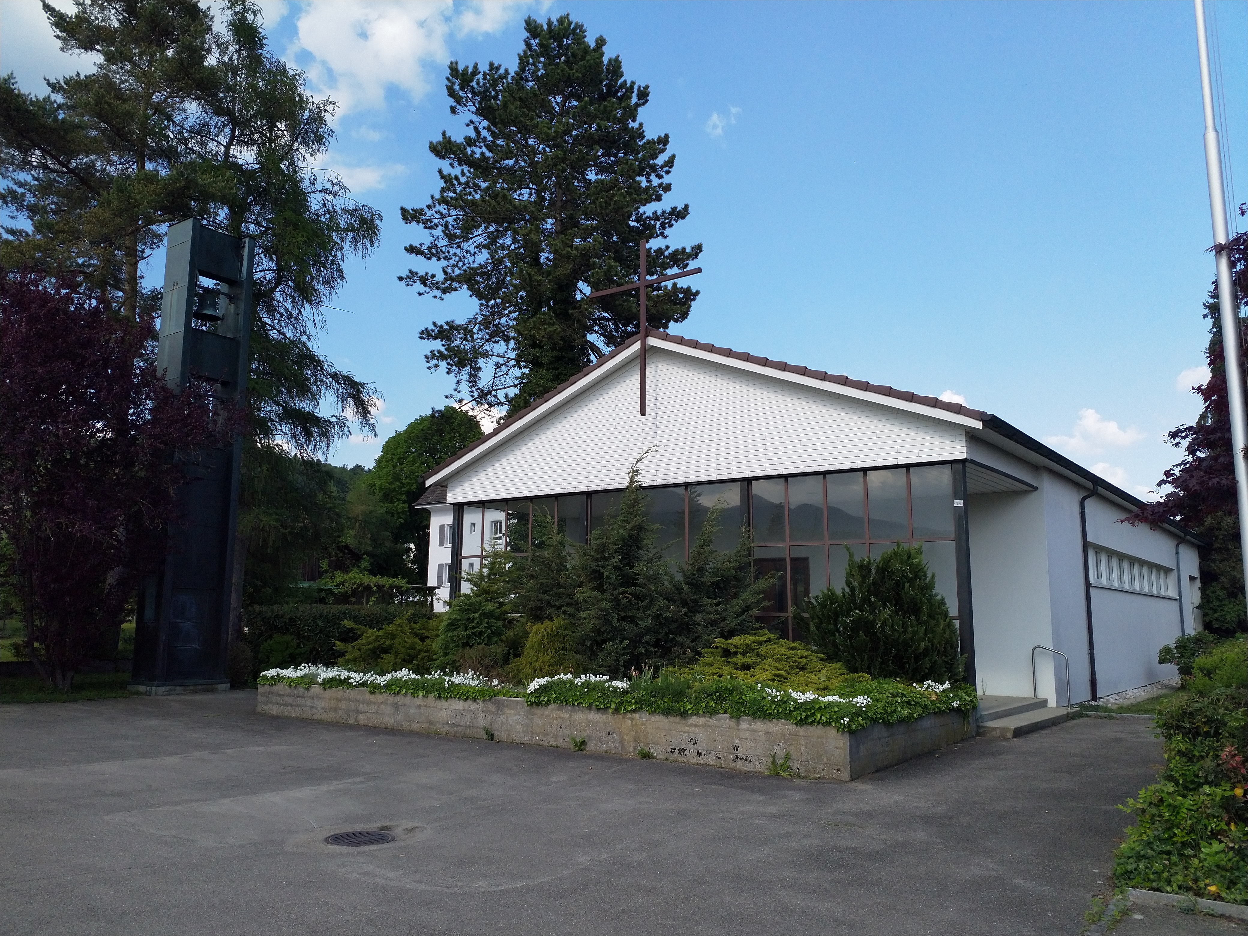 Roman Catholic St. Martin's church in Riedholz, canton of Solothurn, Switzerland. Built in 1957.